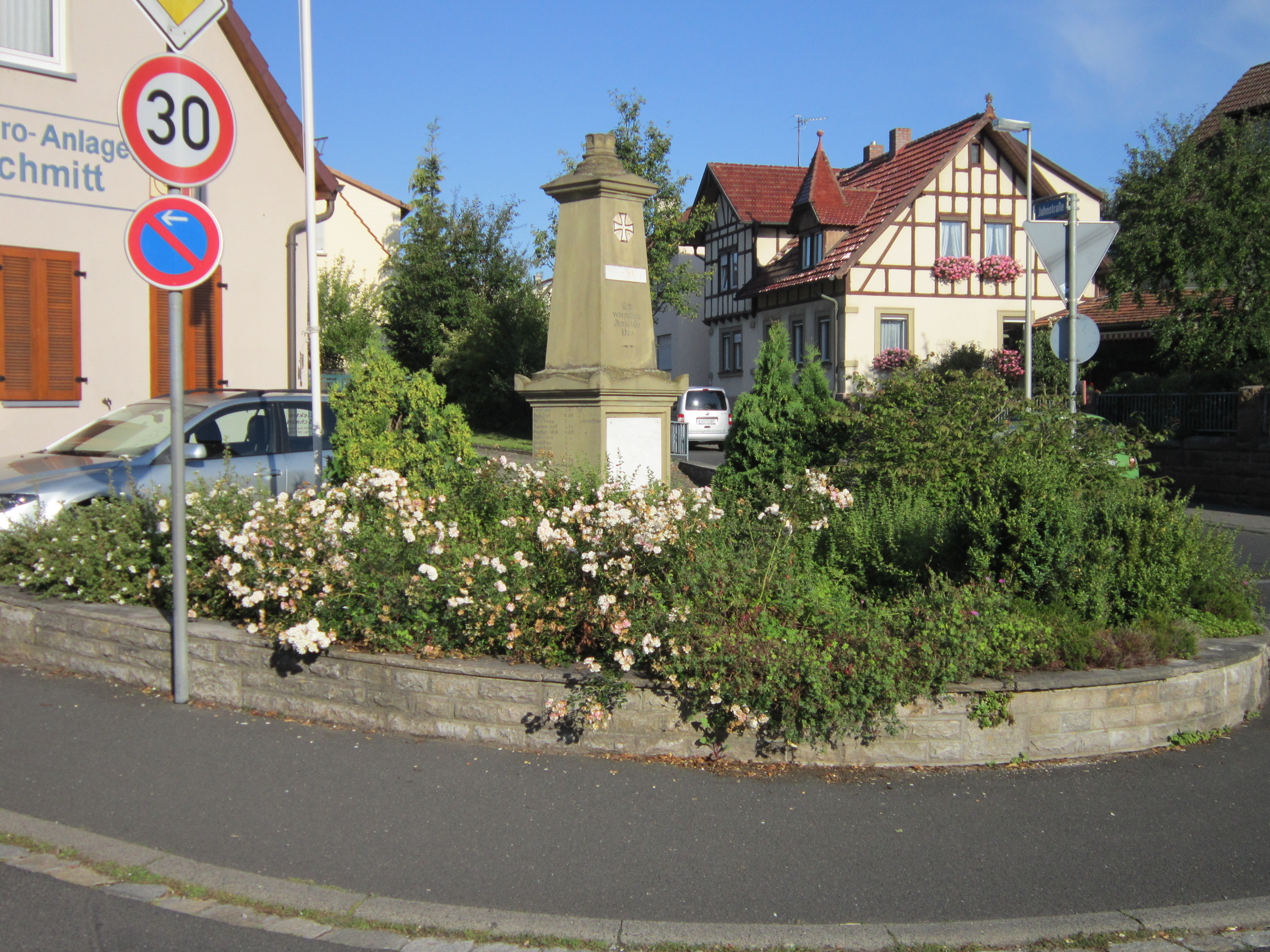 War Memorial located in Garitz, a quarter of the German spa town of Bad Kissingen in Lower Franconia (Bavaria), remembering on the Prussian Wars in 1866 and 1870